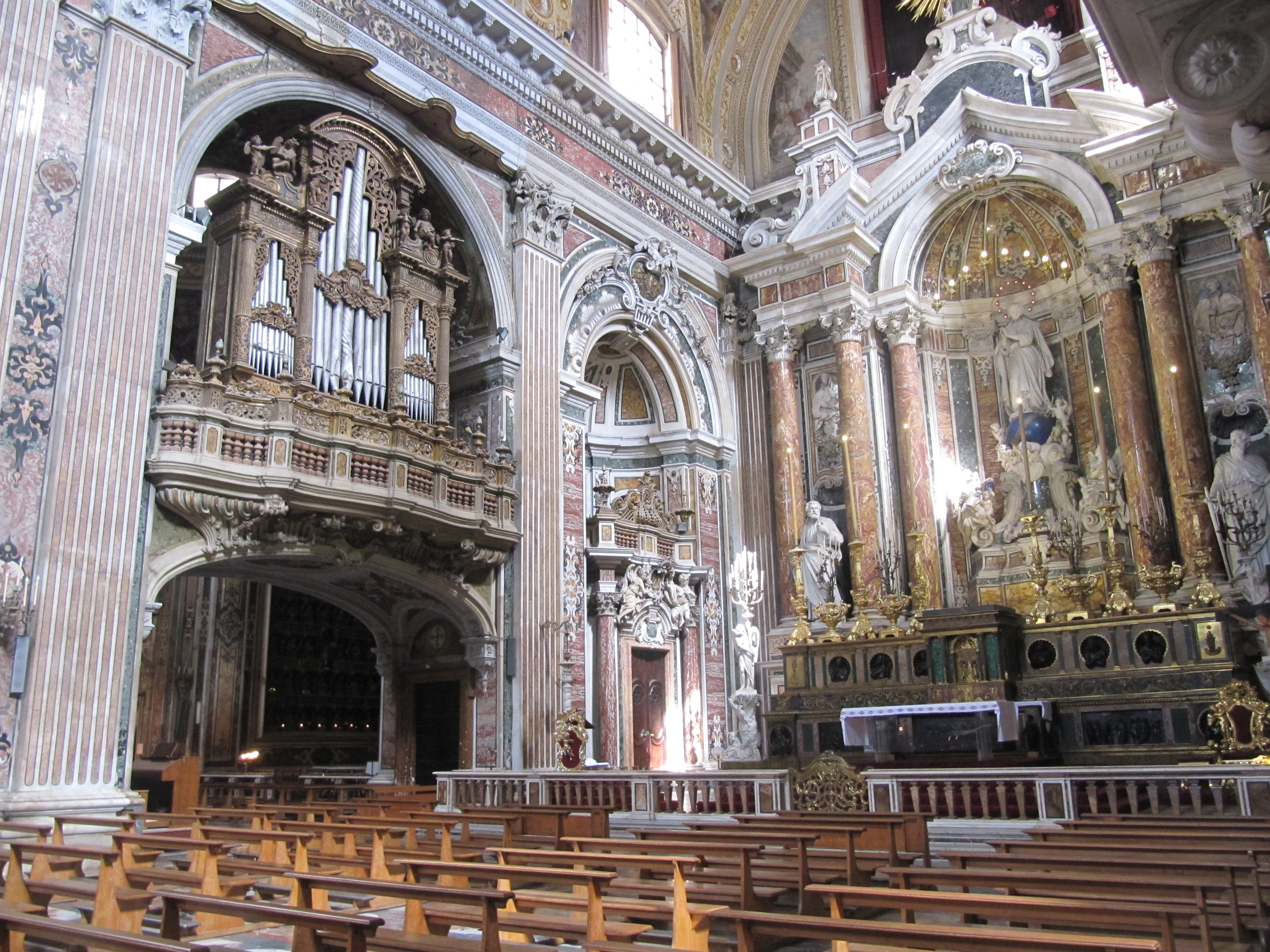 Naples, Italy.